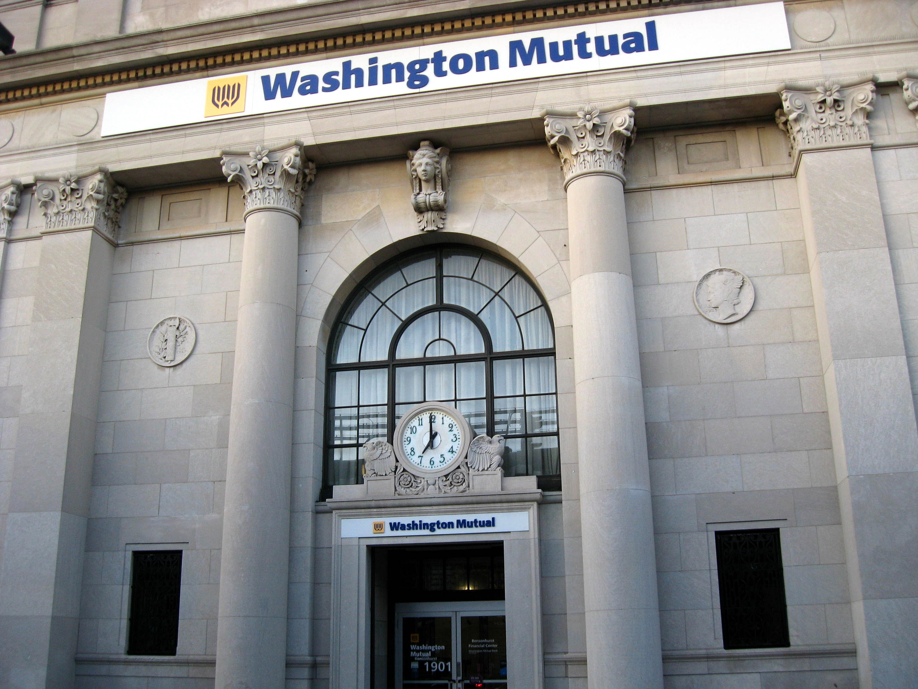 Looking north across 86th Street at a former Dime Bankcorp branch now Washington Mutual at 19th Avenue, showing the original Mercury Dime (United States coin) logos, late on a sunny afternoon. See File:Dime Savings 9 Dekalb jeh.jpg for former central headquarters.